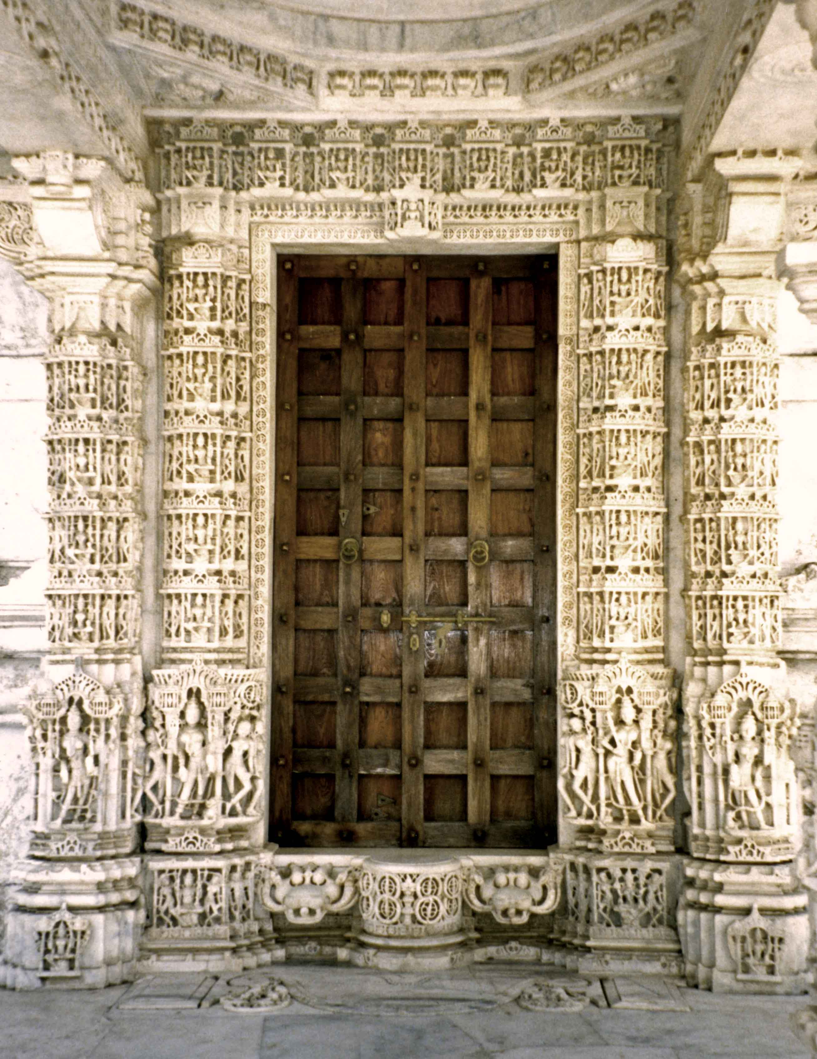 Doorway: Jain temple: Diwara, Mount Abu, Rajasthan, India